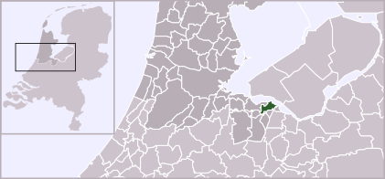 Locator map of Dutch municipalities in Noord-Holland (LocatieHuizen.png)